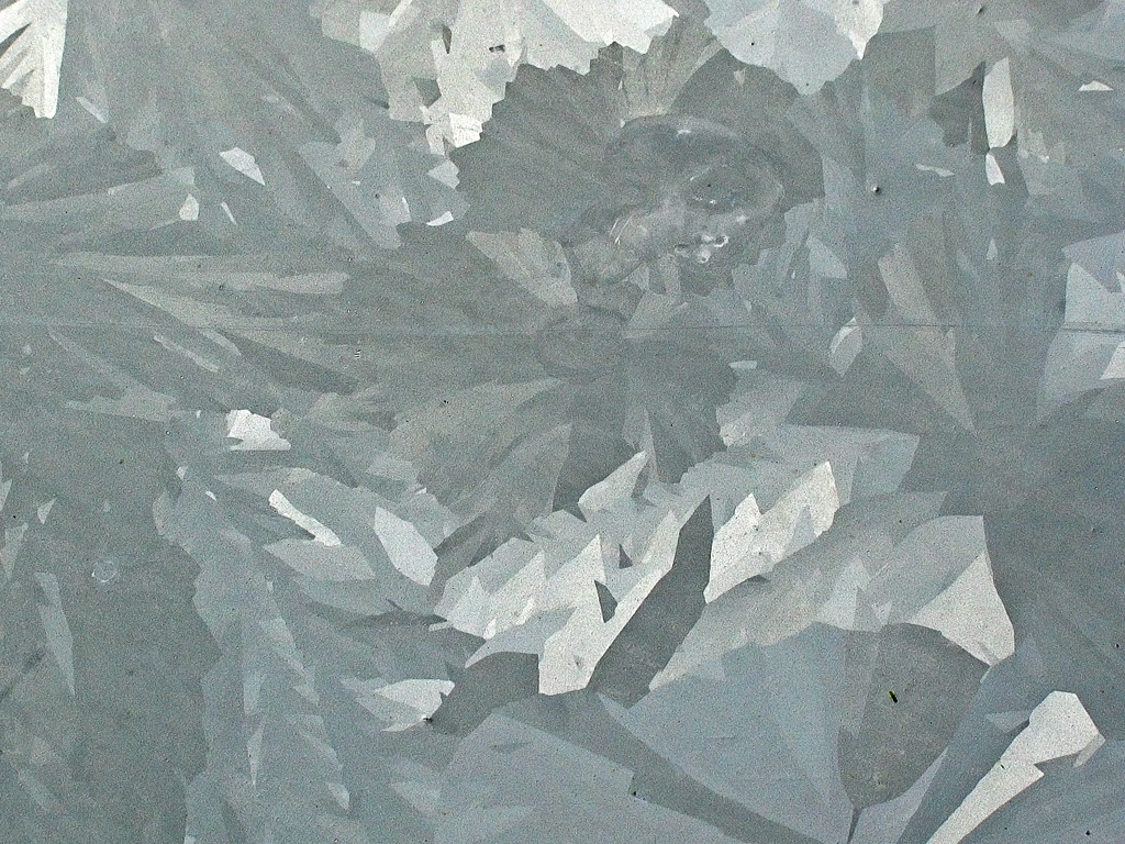 Hot-dip galvanizing on a relatively new steel handrail. The image shows approximately 6 × 4 centimeters of the surface. Location: Saxony, Germany.